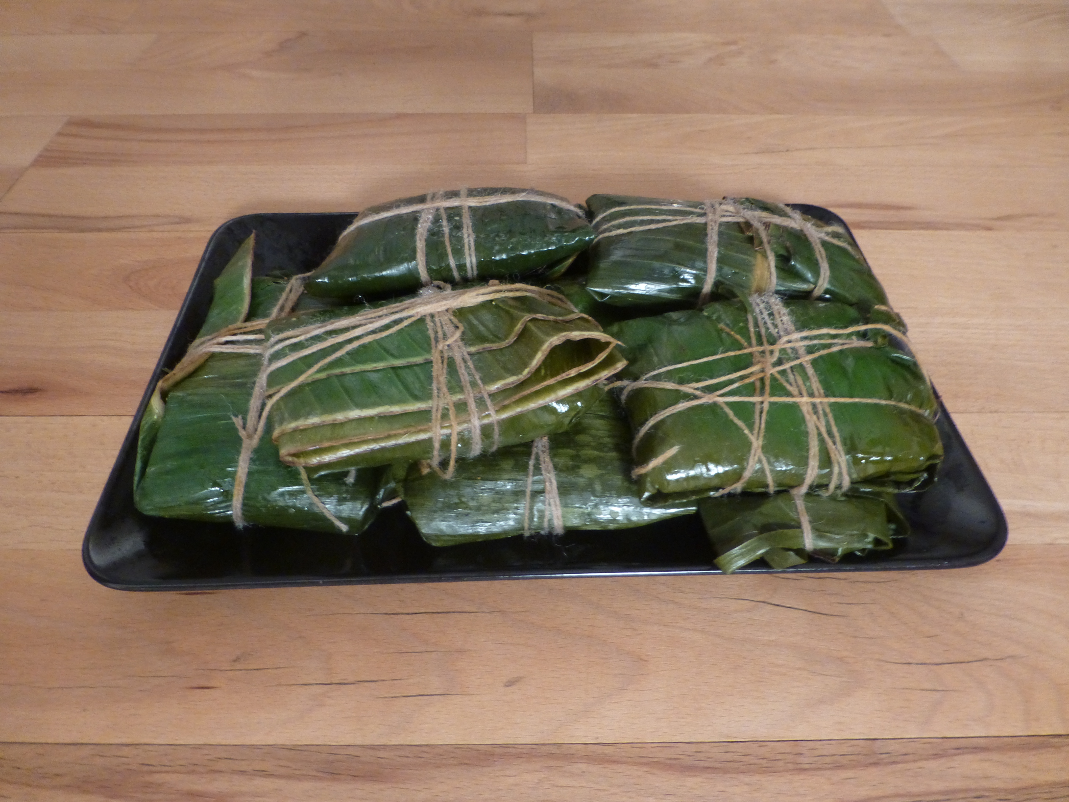 Pastelles, a Trinidadian christmas dish. Right after steaming.